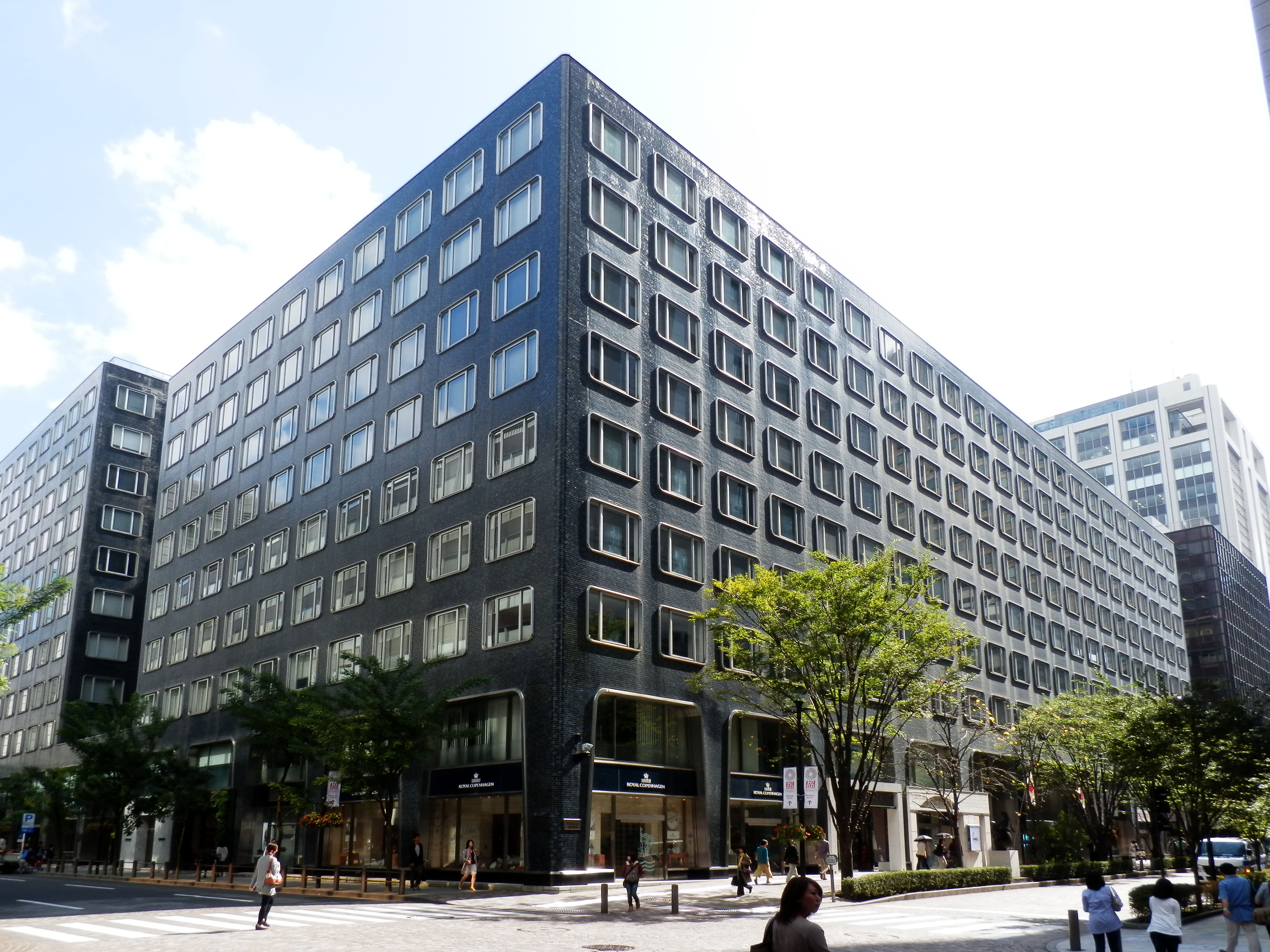 New Yurakucho Building (Office building in Tokyo, Japan)